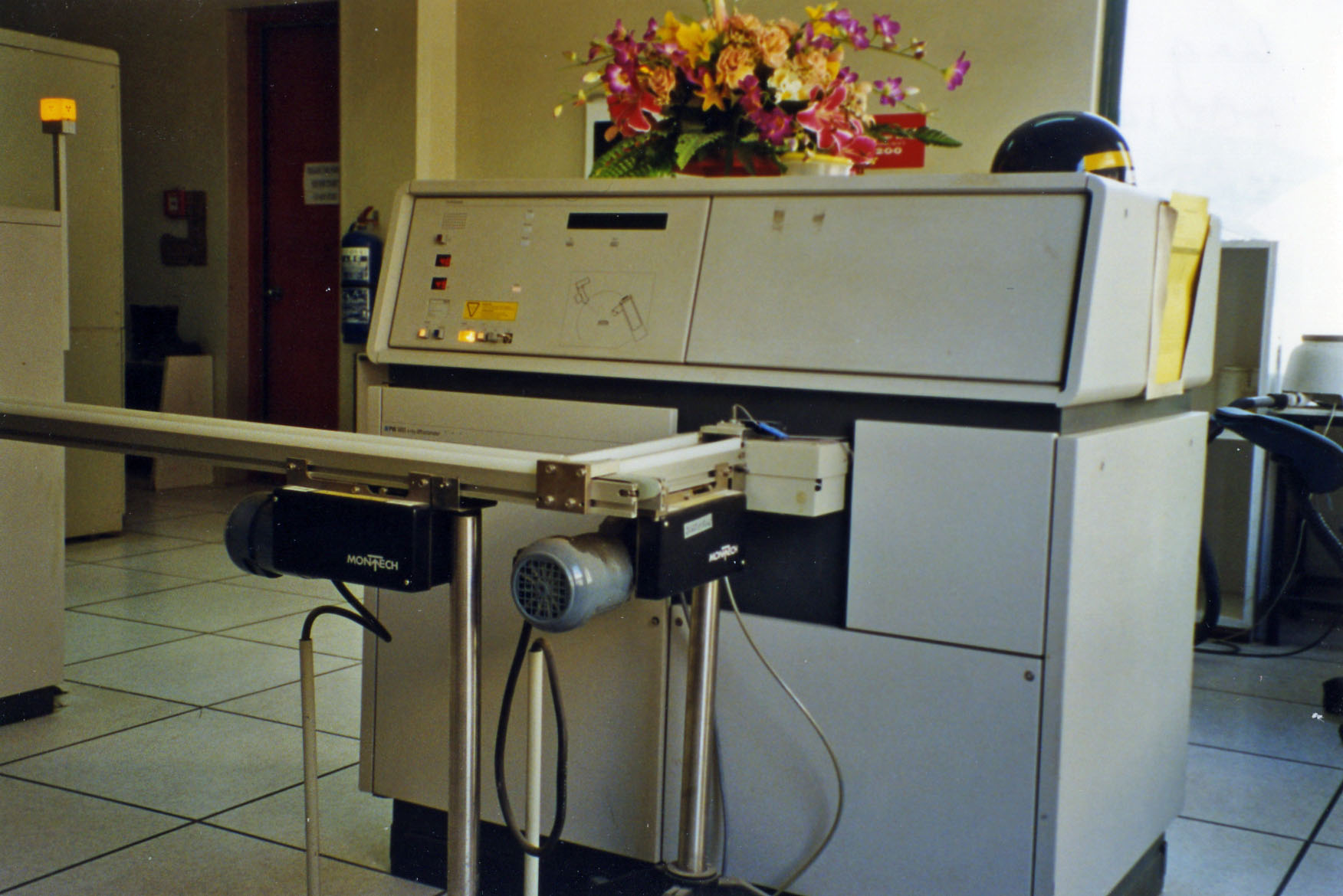 An X-ray diffractometer set up for online analysis of clinker on a cement plant. LD own work.